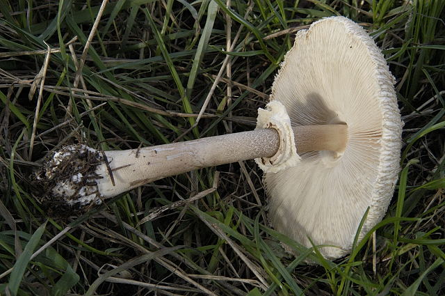 Macrolepiota procera from Commanster, Belgium. The determination of the species shown in this picture has been verified.